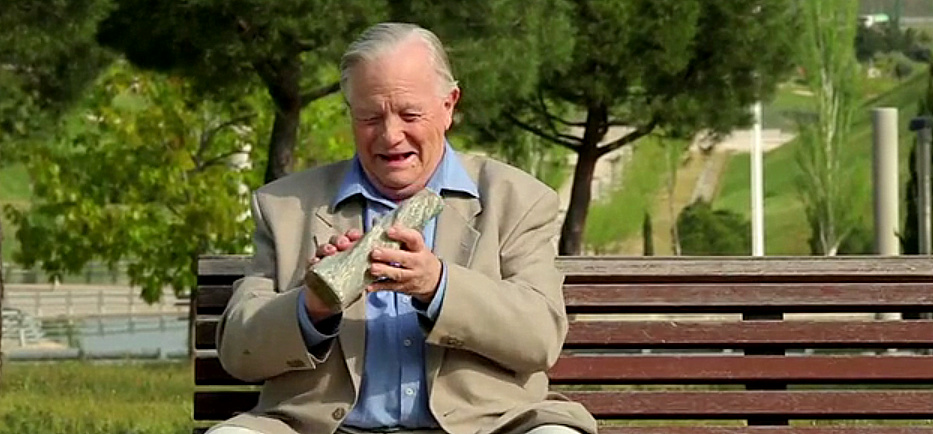 English thespian Peter Bridgmont on the set of Álvaro Ramos' "The Magic Box" (2011).